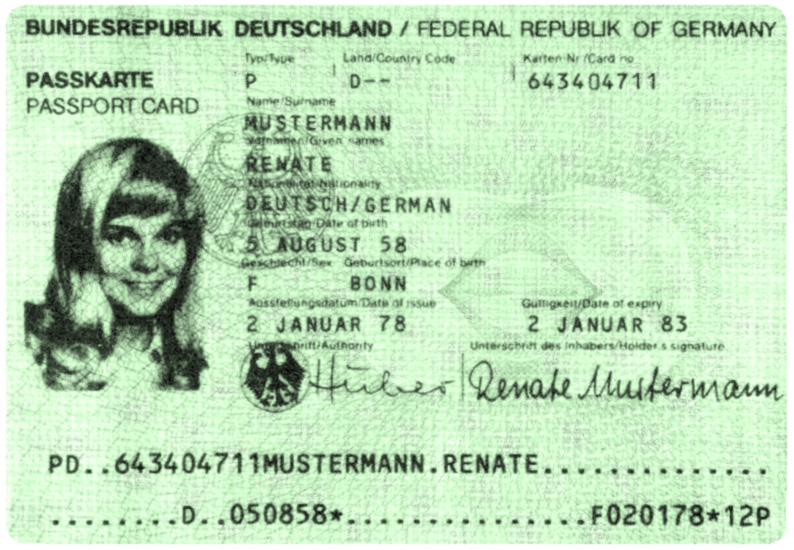 Federal Republic of Germany, Passport Card from Renate Mustermann